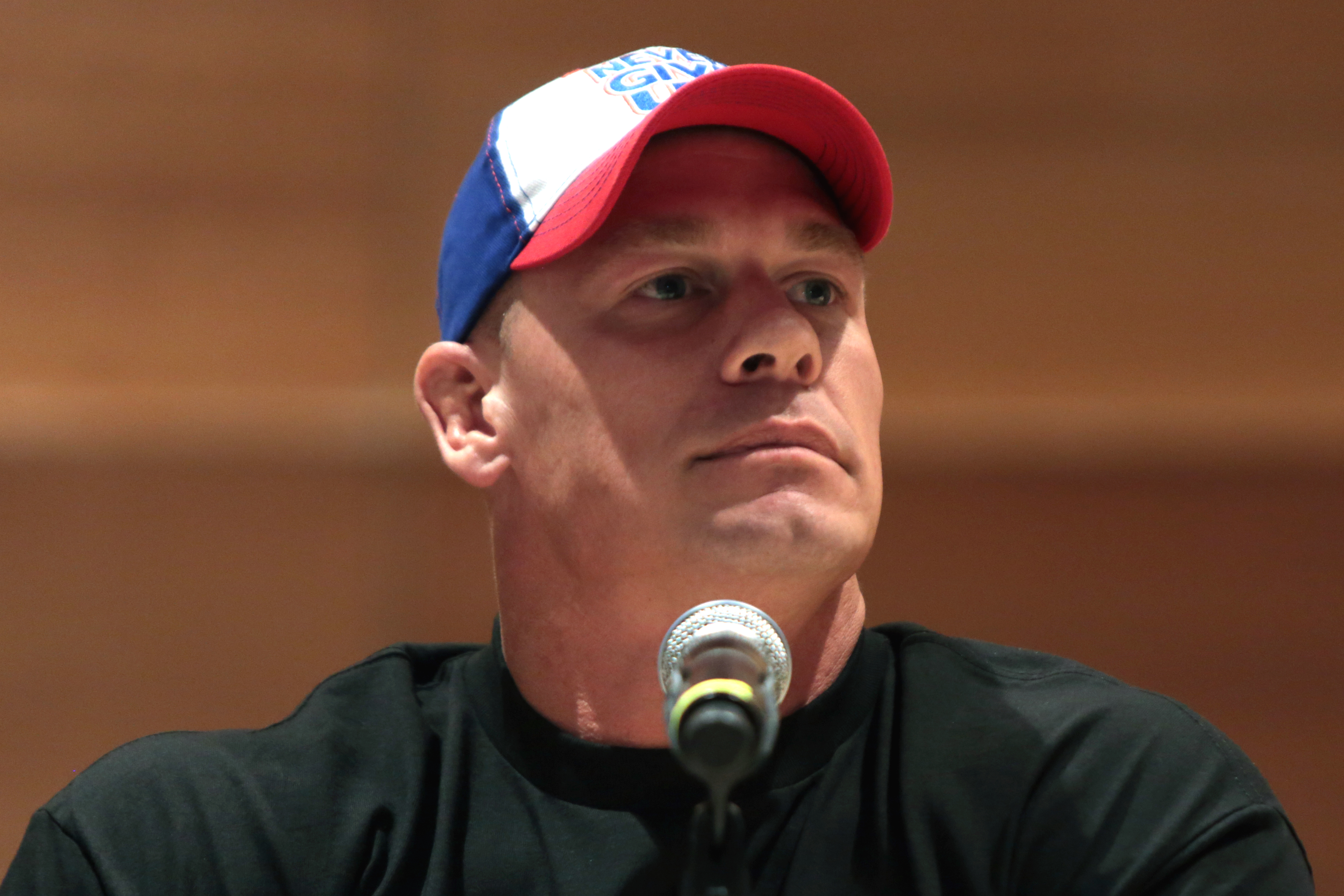 John Cena speaking at the 2016 Phoenix Comicon Fan Fest at the Phoenix Convention Center in Phoenix, Arizona.